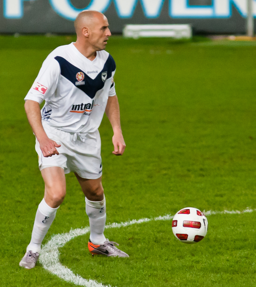 Kevin Muscat playing for Melbourne Victory FC in Round 1 of the 2010-11 A-League against Sydney FC.